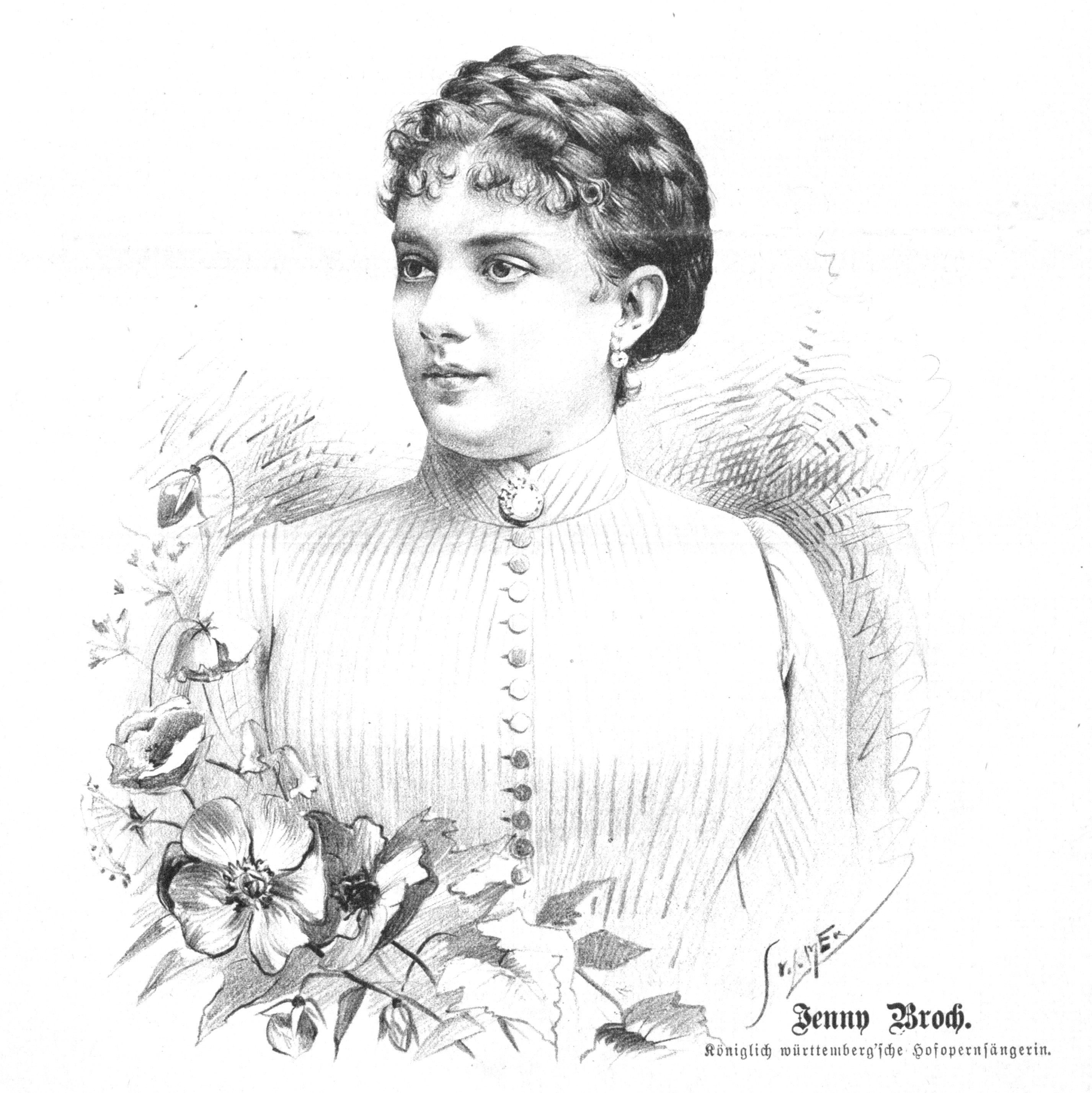 Portrait of Jenny Broch, Austrian actress and opera siner.